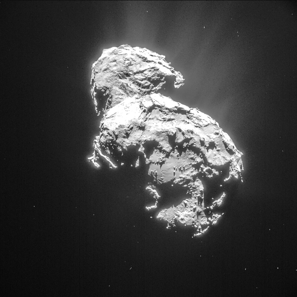 Single frame Rosetta spacecrast NAVCAM image of Comet 67P/C-G taken 6 March from a distance of 82.9 km to the comet.